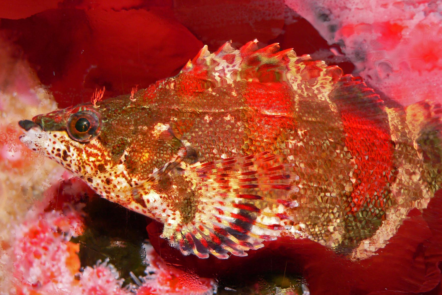 Photo of Oxylebius pictus (painted greenling) at the Vancouver Aquarium